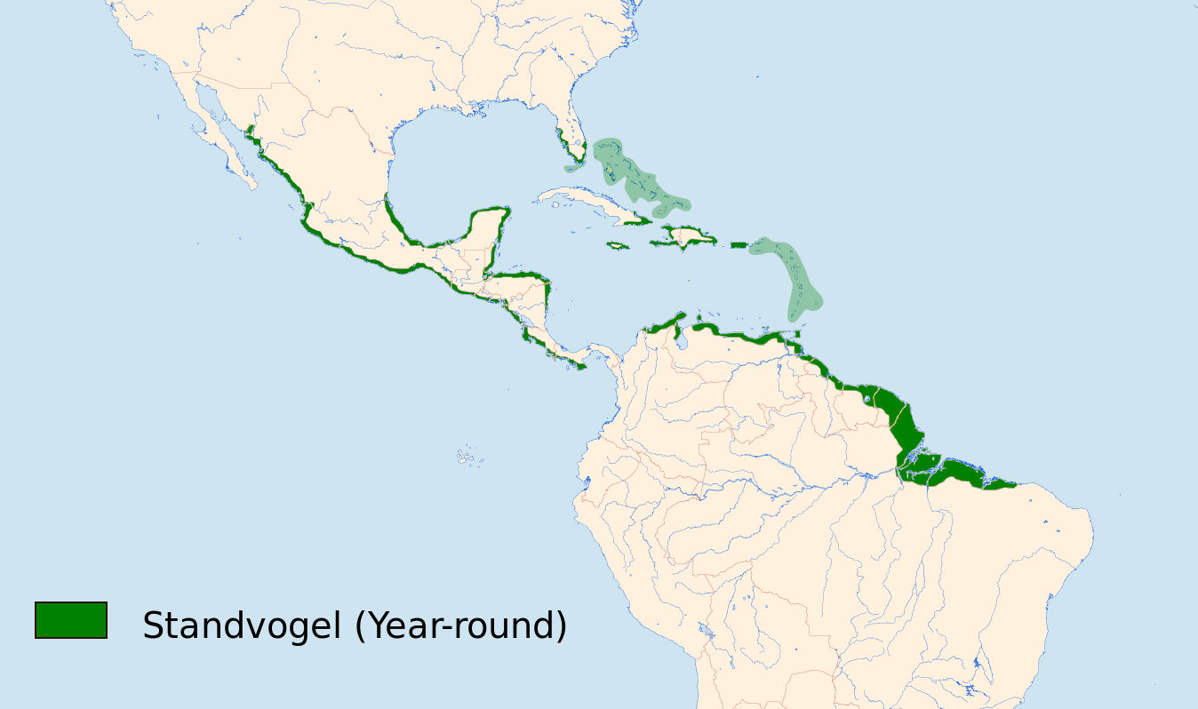 Distribution of the Mongrove Cuckoo